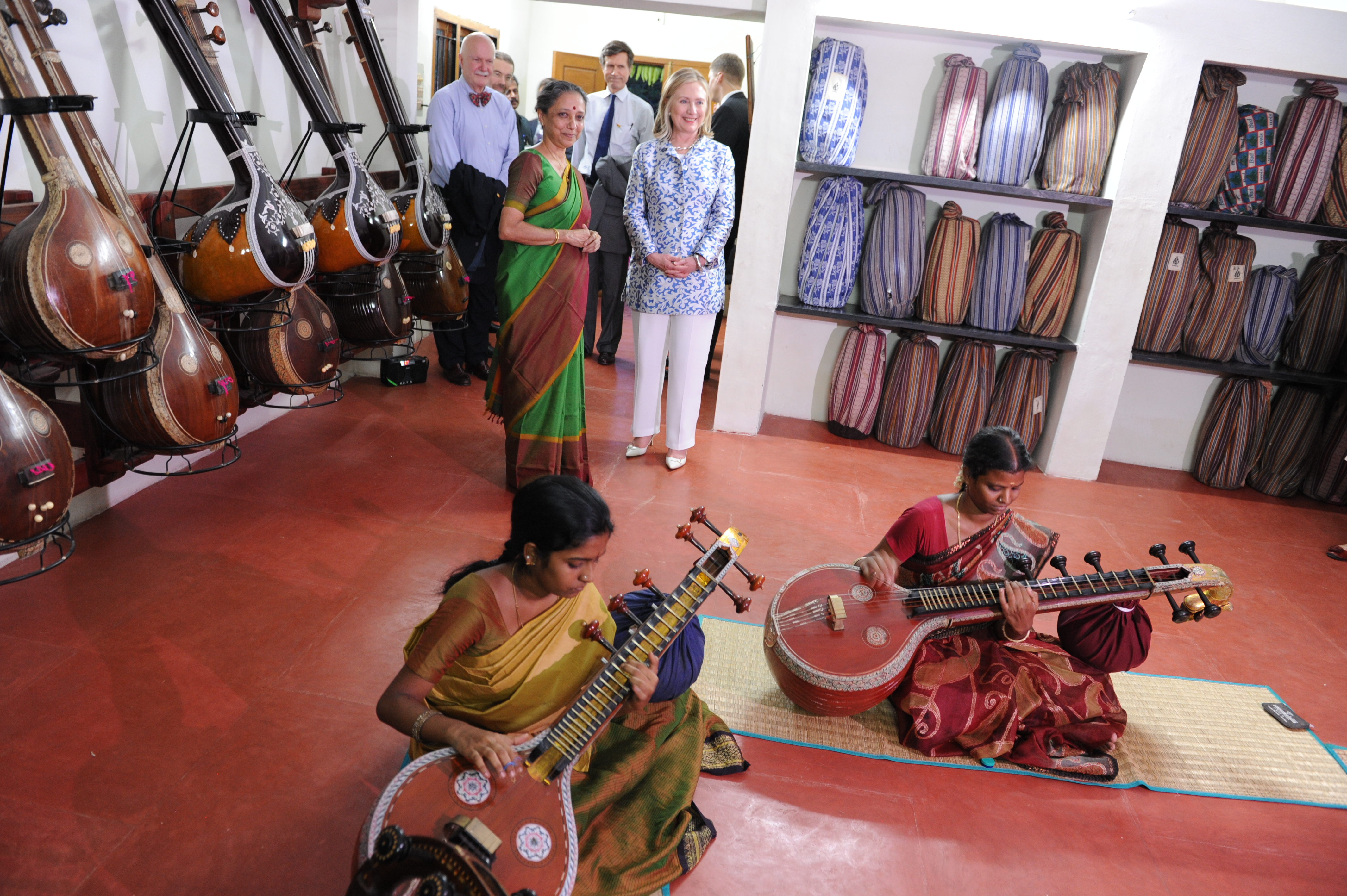 U.S. Secretary of State Hillary Rodham Clinton visits a music classroom prior to watching a dance performance at the Kalakshetra Foundation in Chennai, India, on July 20, 2011. [Paul Cohn/ State Department photo]